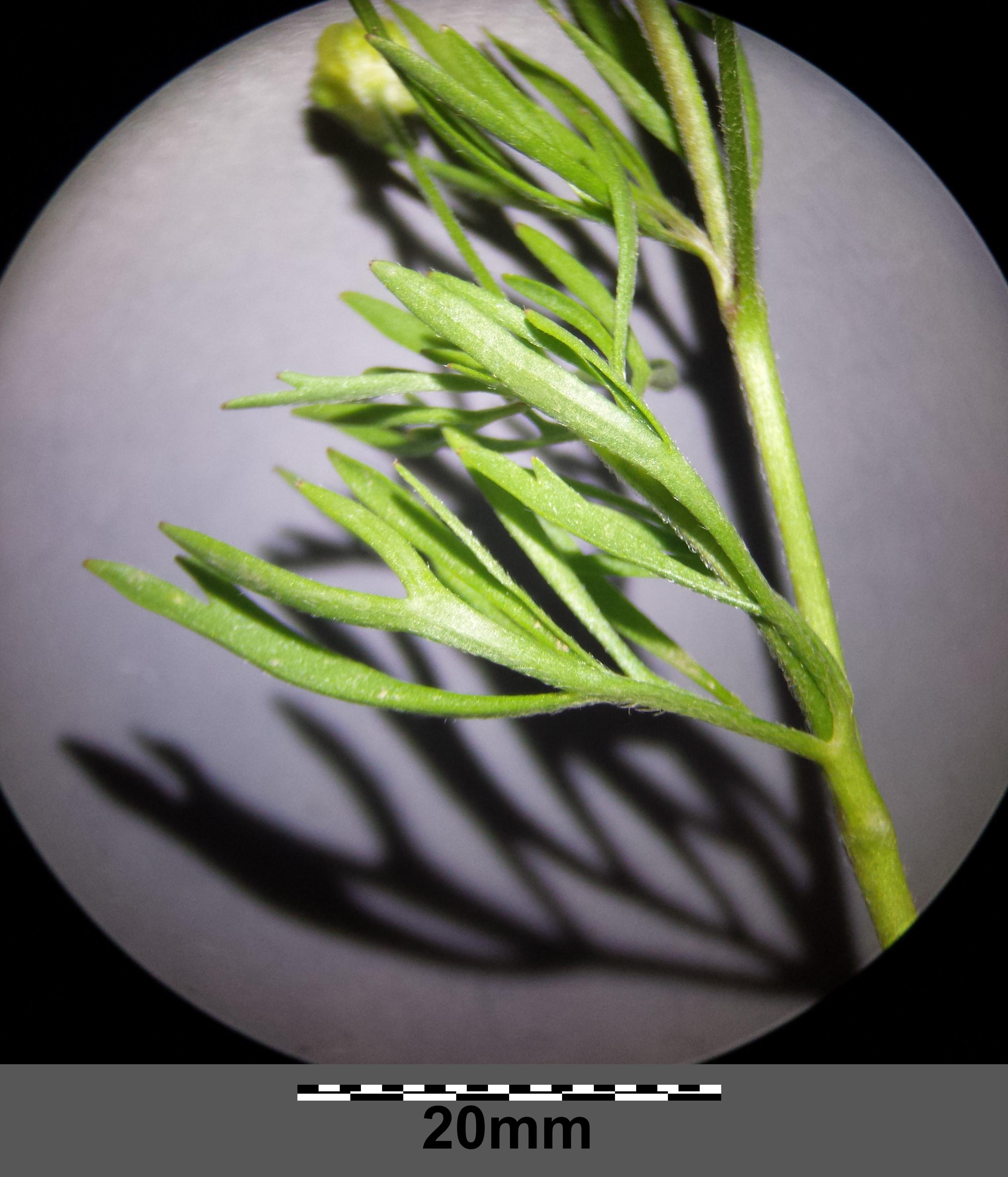 Stem with leaves Taxonym: Ranunculus arvensis ss Fischer et al. EfÖLS 2008 ISBN 978-3-85474-187-9 Location: near Großrußbach, district Korneuburg, Lower Austria - ca. 290 m a.s.l. Habitat: border of a field